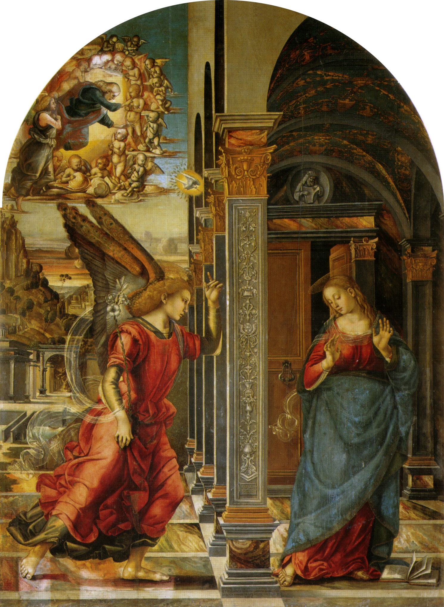 The Annunciation in which the sweeping movement of the angel’s drapery and the Madonna poised to take her leave are framed by the portico and the perspective of the Rennaissance architecture in the foreground